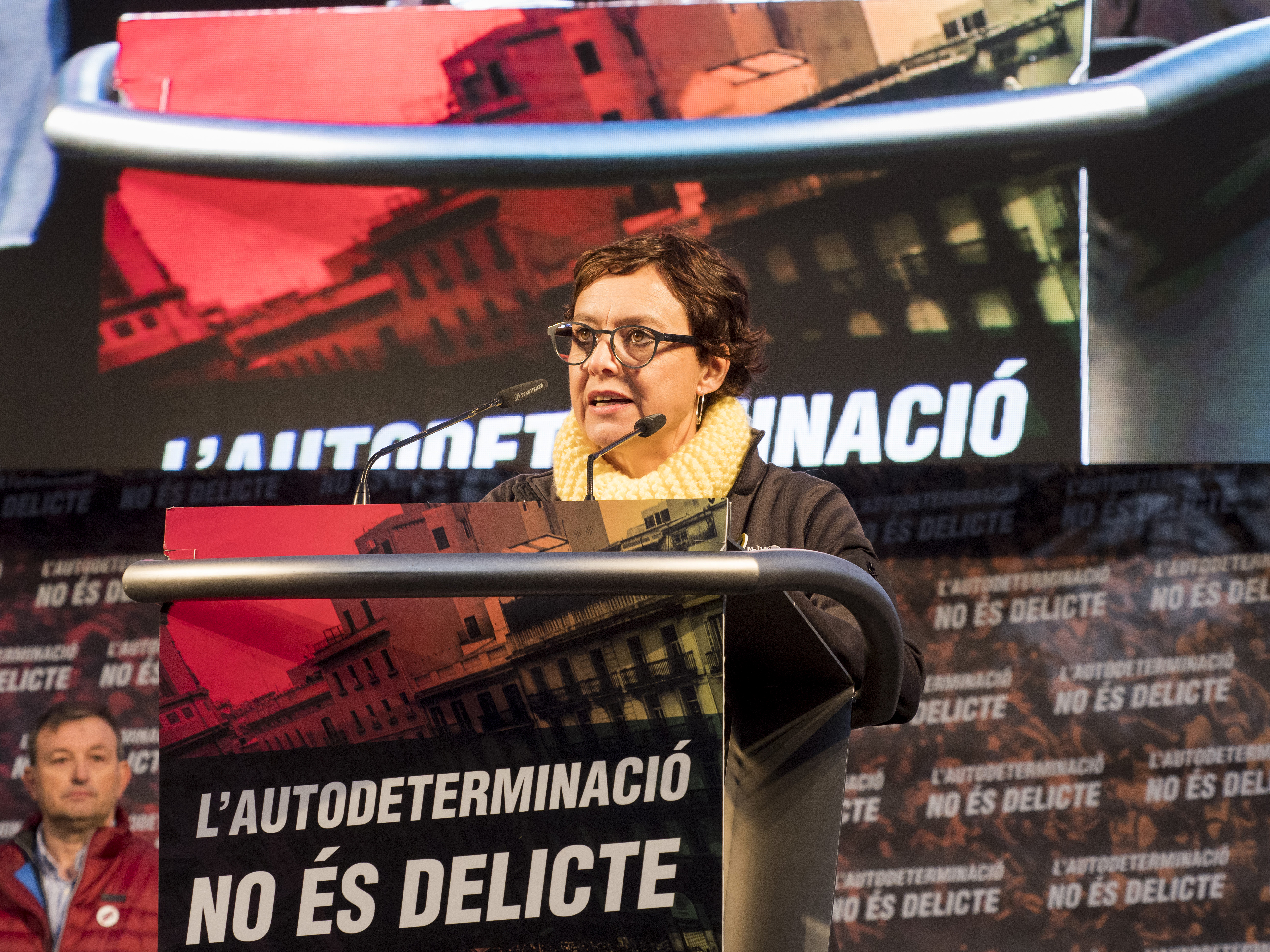 Montse Bassa in demonstration: "Self-determination is not a crime"